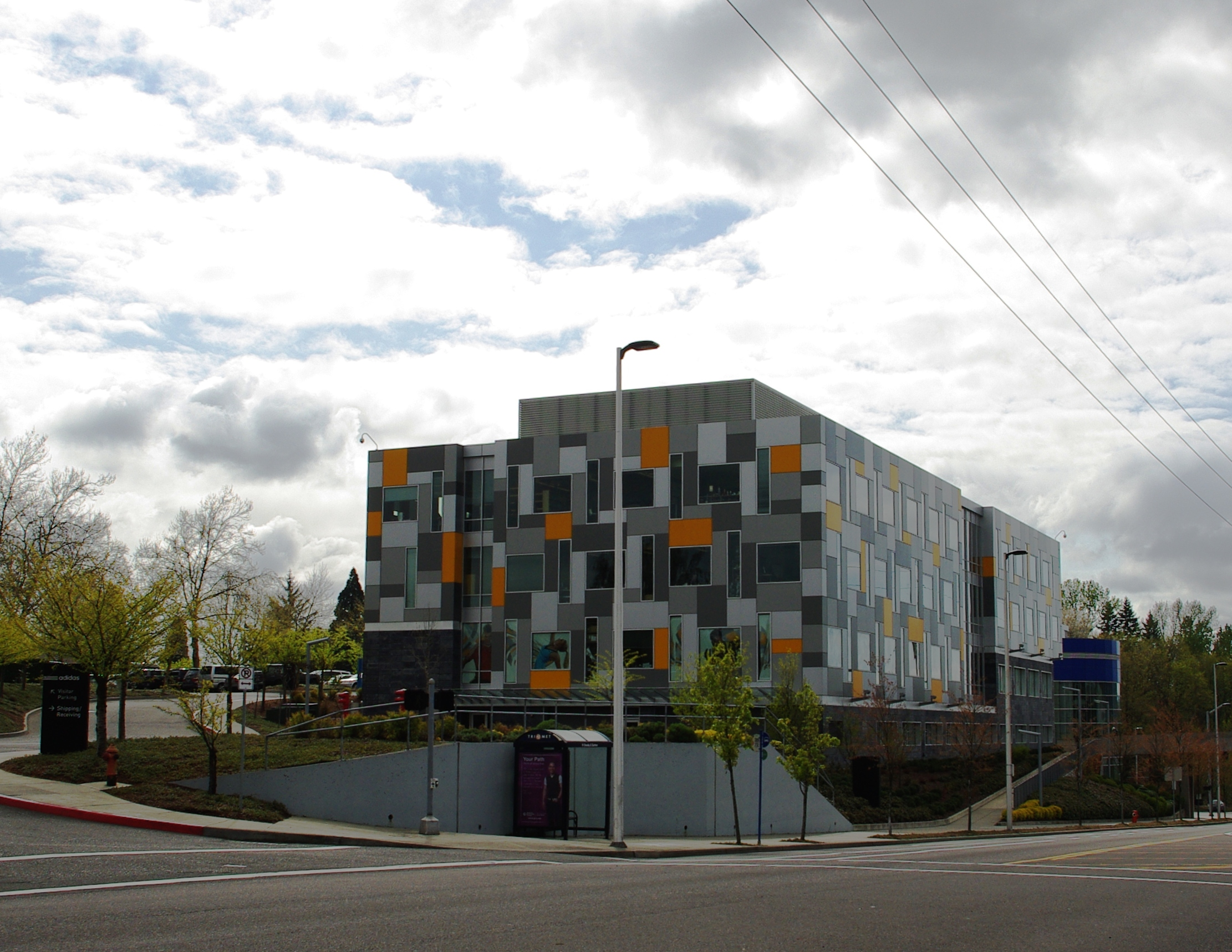 Buildings on the campus of Adidas' North America headquarters in Portland, Oregon. Formerly was Bess Kaiser Hospital.